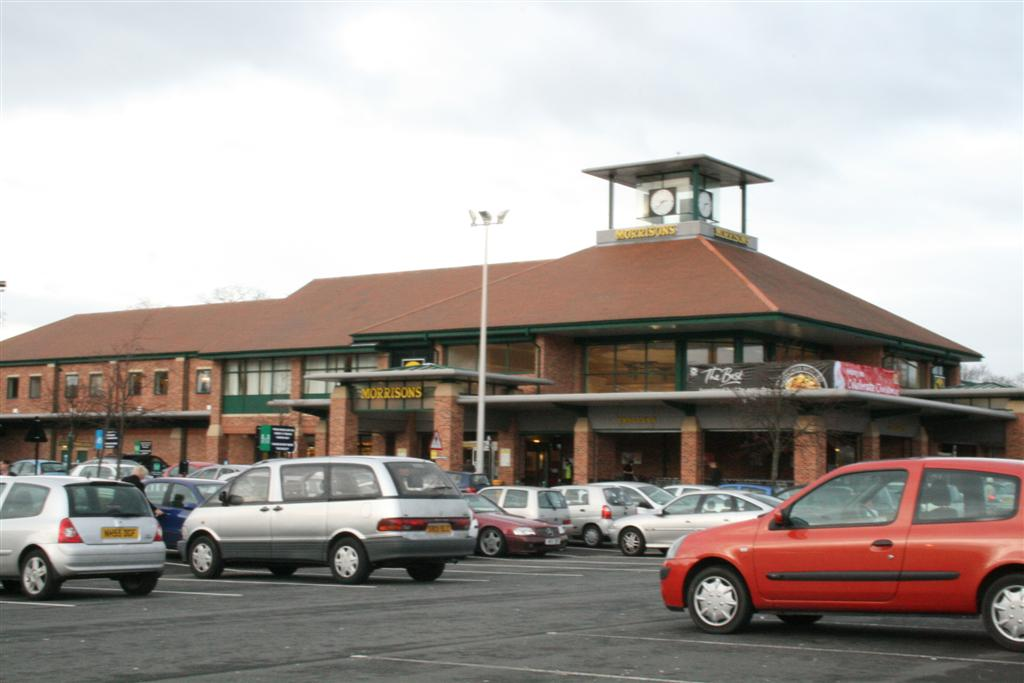 Morisssons store